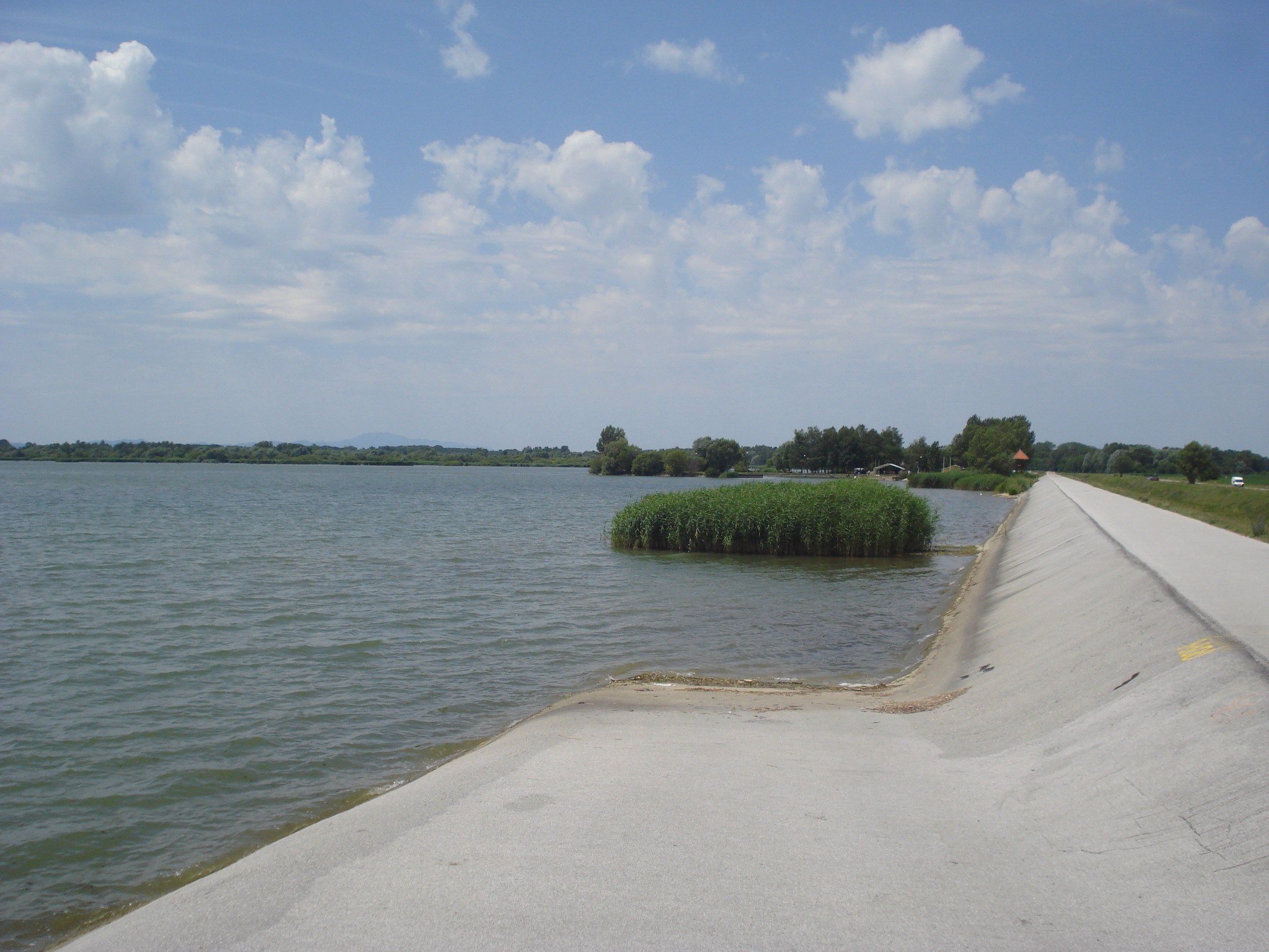 Lake Dubrava, an artificial lake on the Drava River in northern Croatia - western part